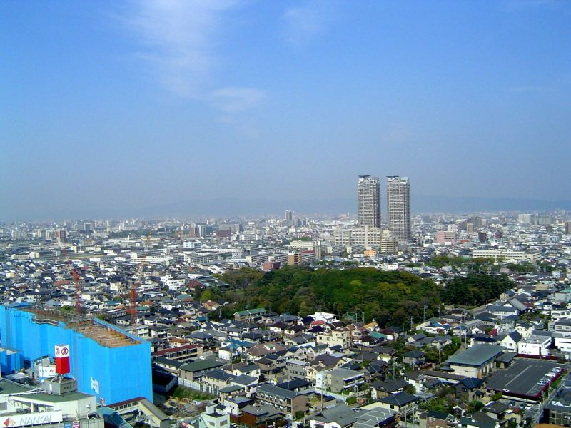 Hanzeiryo_tumulus, Sakai.